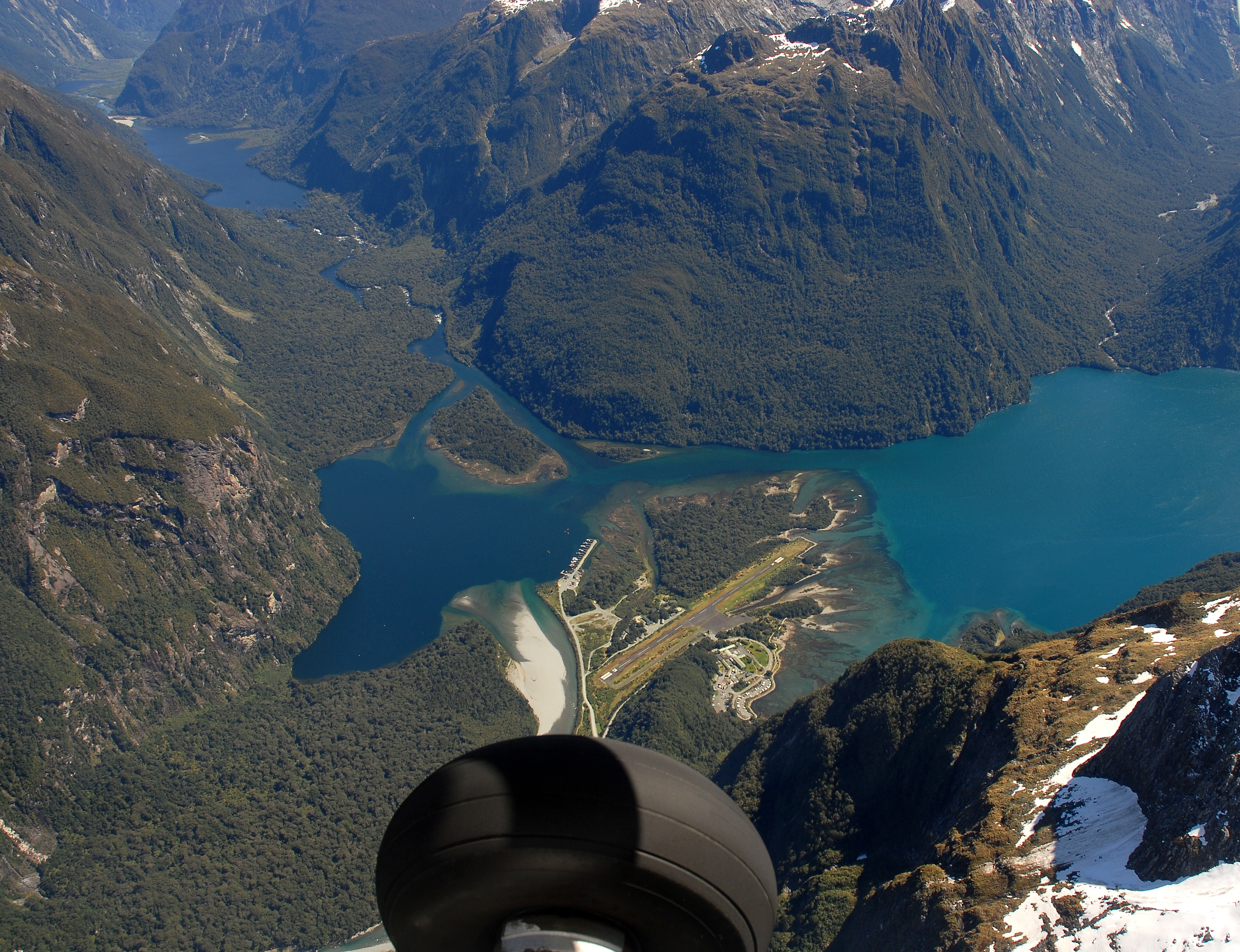 Milford Sound airfield at the junction of the Cleddau and Arthur rivers at the head of Milford Sound (a fiord in southern New Zealand), photographed from an aircraft of Glenorchy Air at an altitude of 3000 feet.